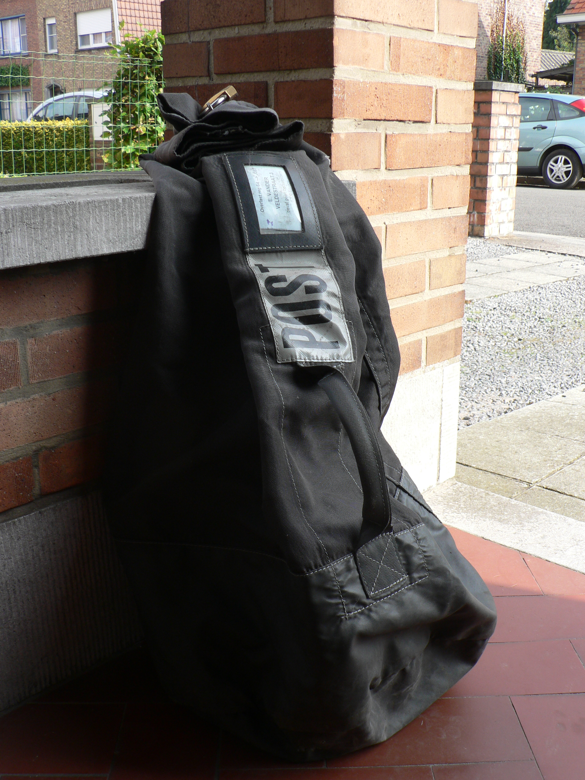 Mail bag of Belgian Bpost: mail bags are brought by van to distribution point (e.g. a shelter of a home), where the mail carrier delivers the letters by bicycle